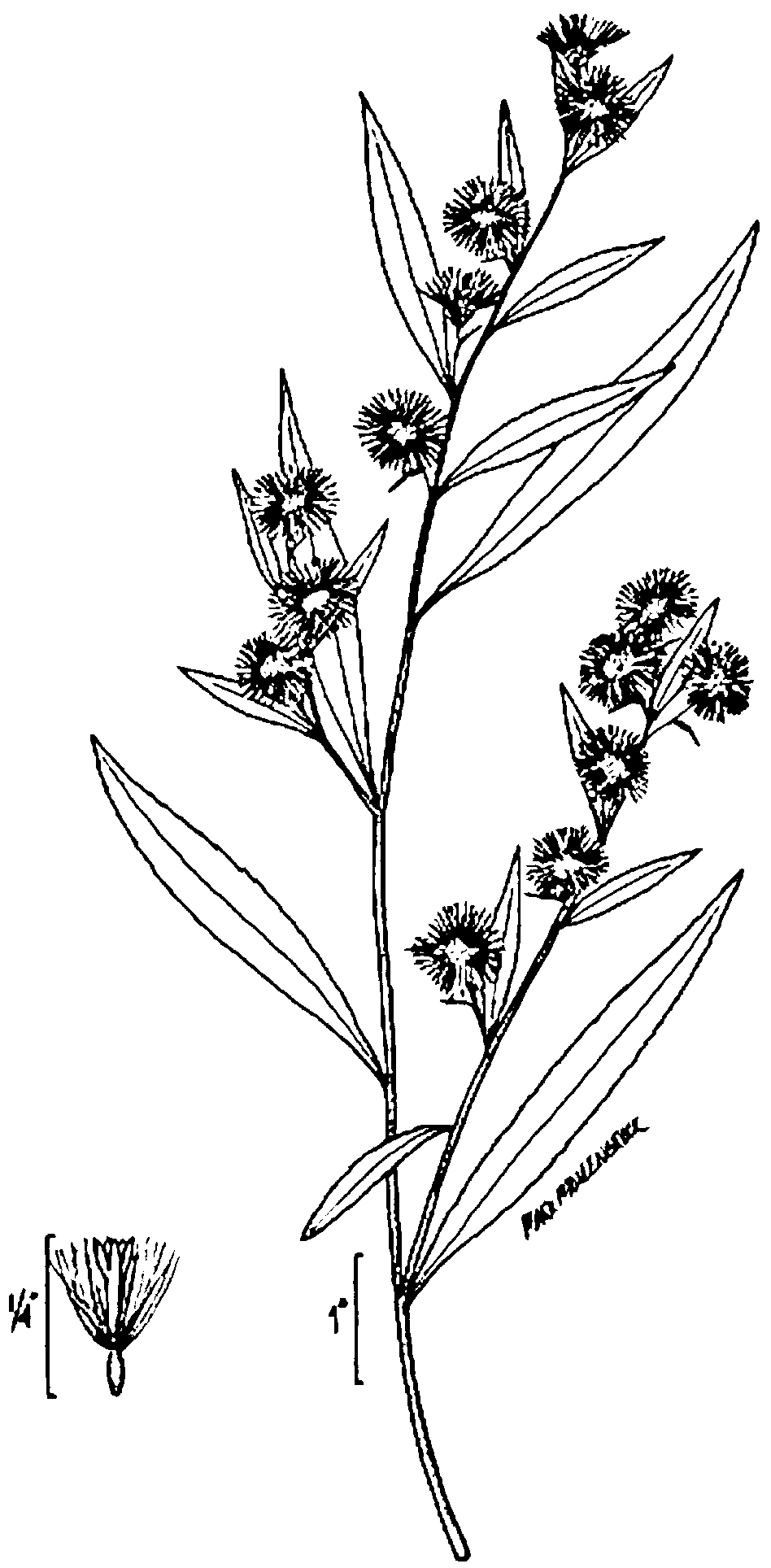 Symphyotrichum lanceolatum (Willd.) G.L. Nesom - white panicle aster